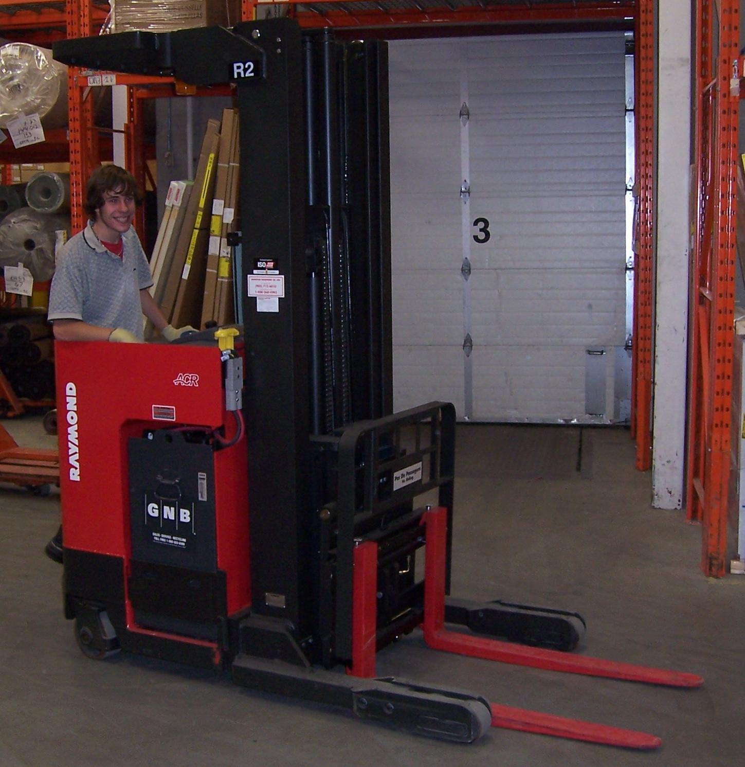 A brand-new Raymond narrow-aisle reach truck; Ottawa, Canada.